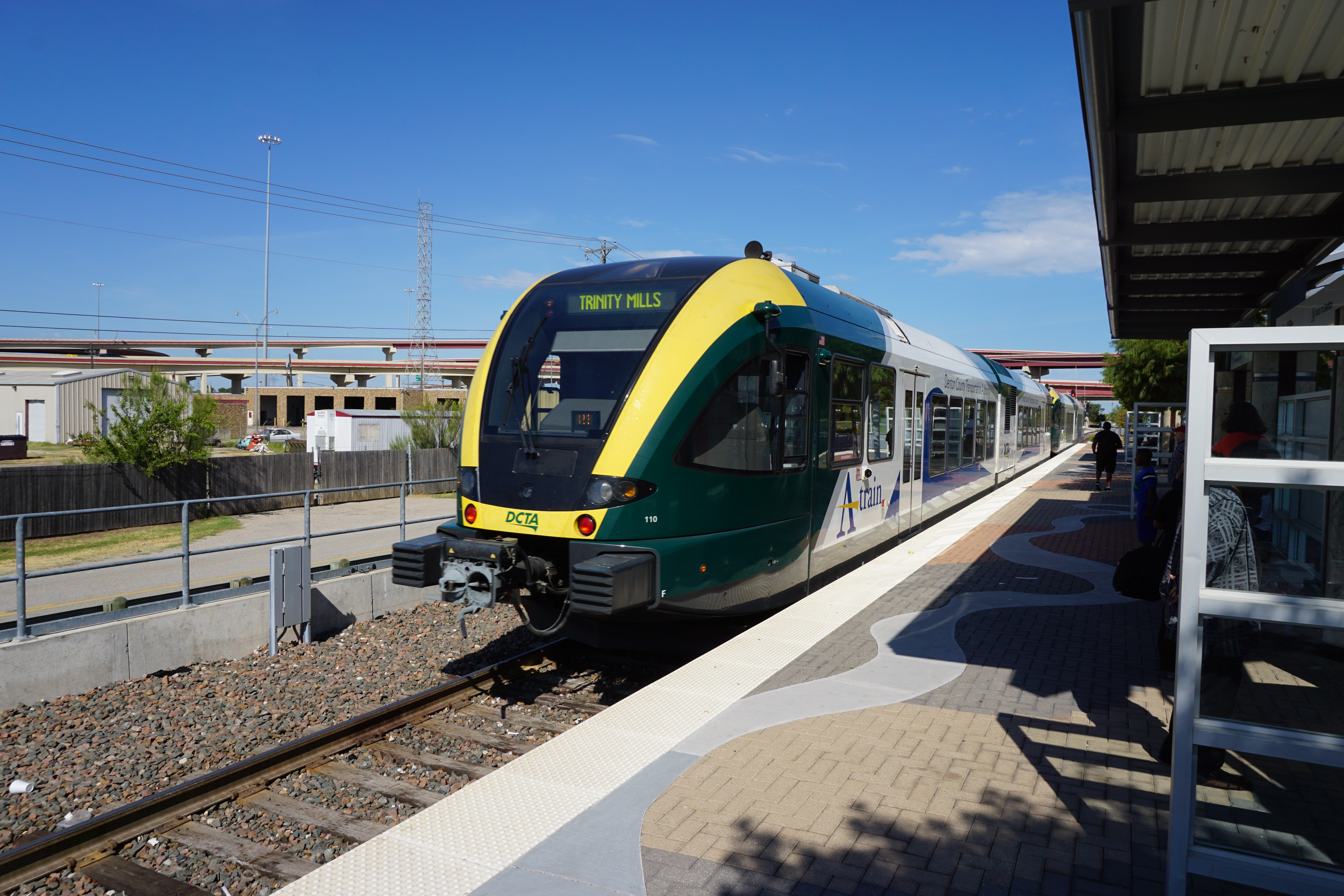 The DCTA A-train at Trinity Mills Station in Carrollton, Texas (United States).